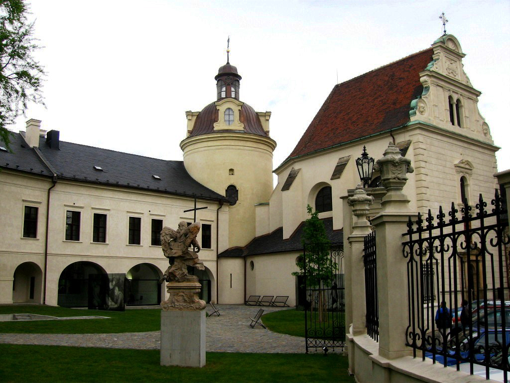 The Archidiocesan Museum in Olomouc, the Czech Republic.